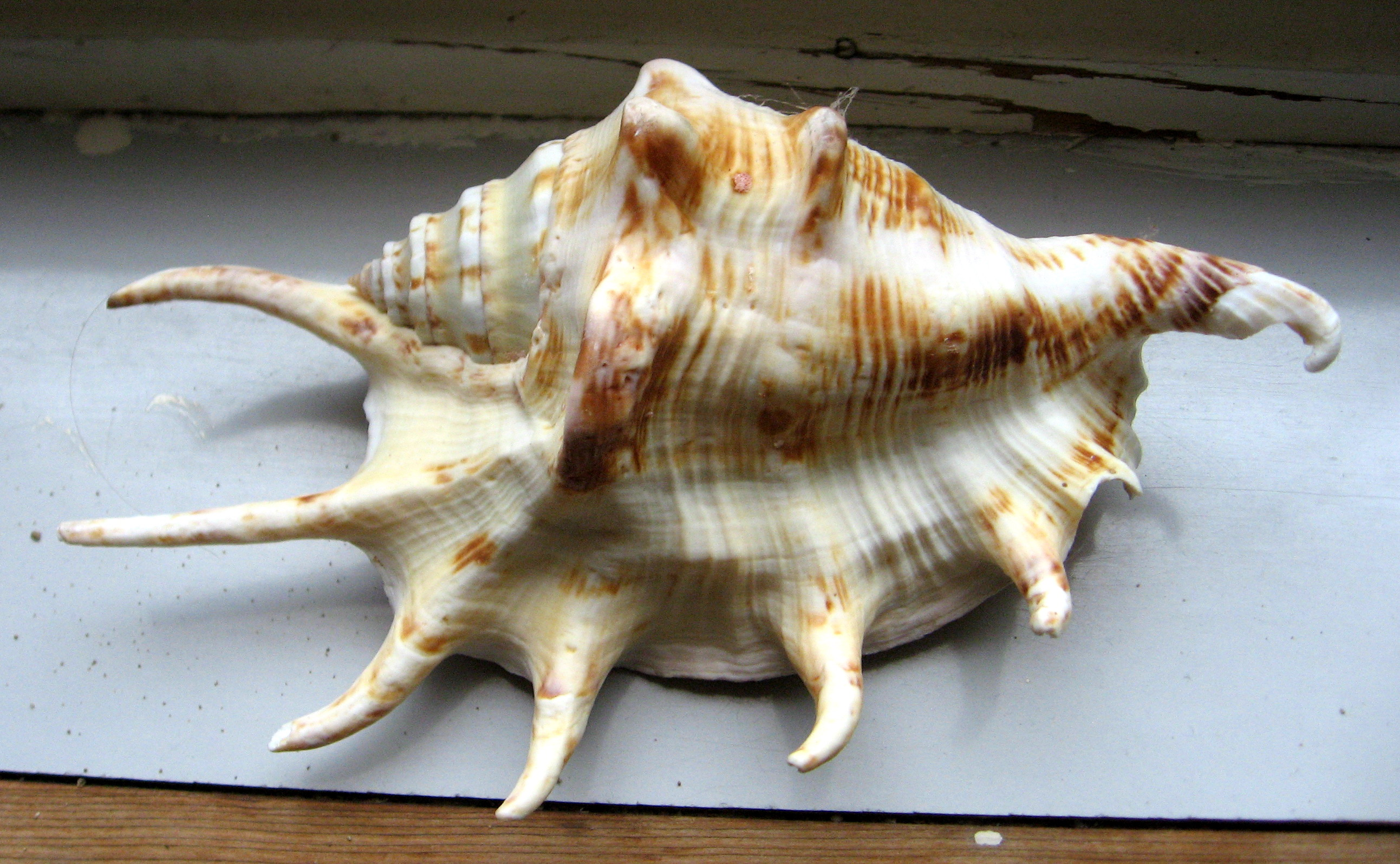 Photo of the shell of Lambis lambis.